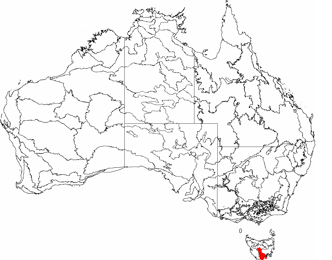 This is a map of the Interim Biogeographic Regionalisation of Australia (IBRA), with state boundaries overlaid. The Tasmanian Southern Ranges region is shown in red.